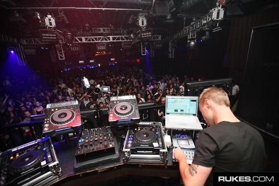 Live in Hollywood @ The Vangaurd